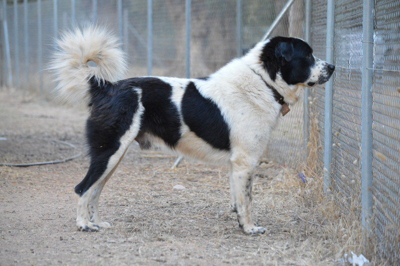 Greek Shepherd male